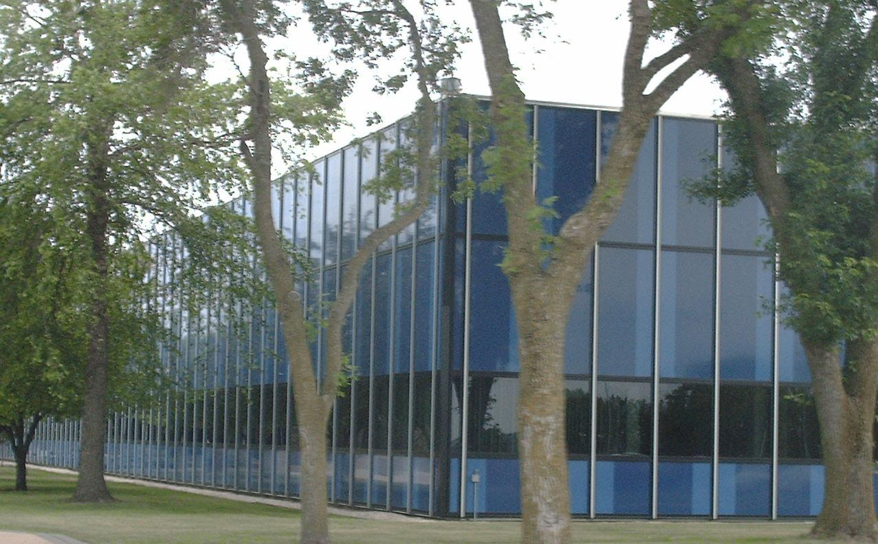 Photo I took in June 2006 of the IBM facility in Rochester, Minnesota. CC & GFDL